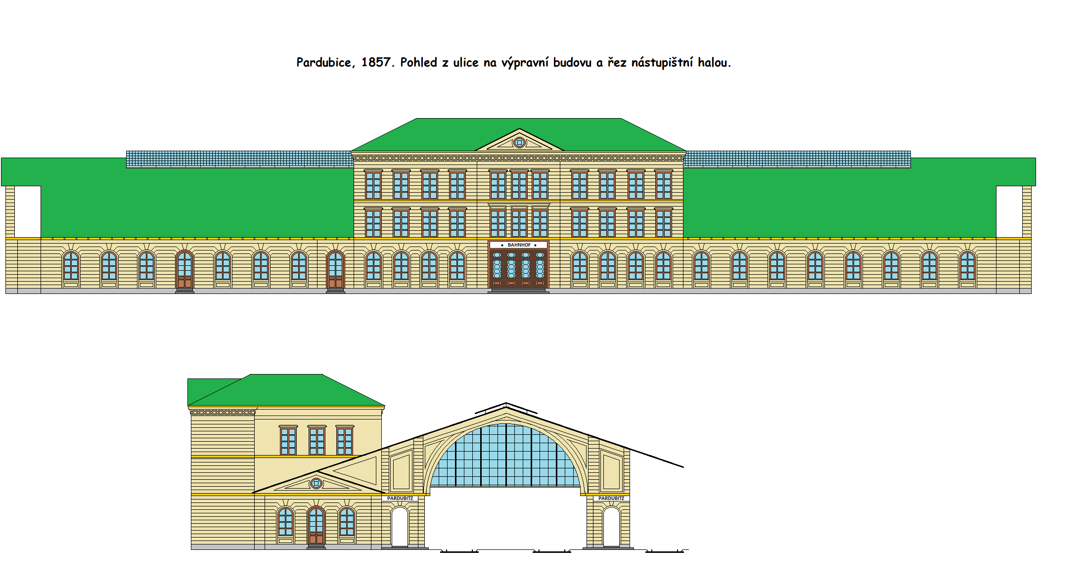 The nonexistent railway station in Pardubice. Built in 1857. Was found at the same place, what the present station Pardubice hlavní nádraží.